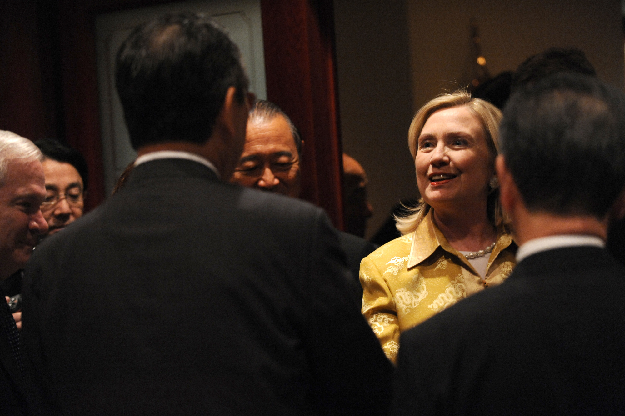 Hillary Rodham Clinton, Secretary of State, talked with Robert Gates, Secretary of Defense, Takeaki Matsumoto, Minister for Foreign Affairs, Ichirō Fujisaki, Ambassador to the United States, and Toshimi Kitazawa, Minister of Defense, in Crystal City, Virginia State on June 20, 2011.